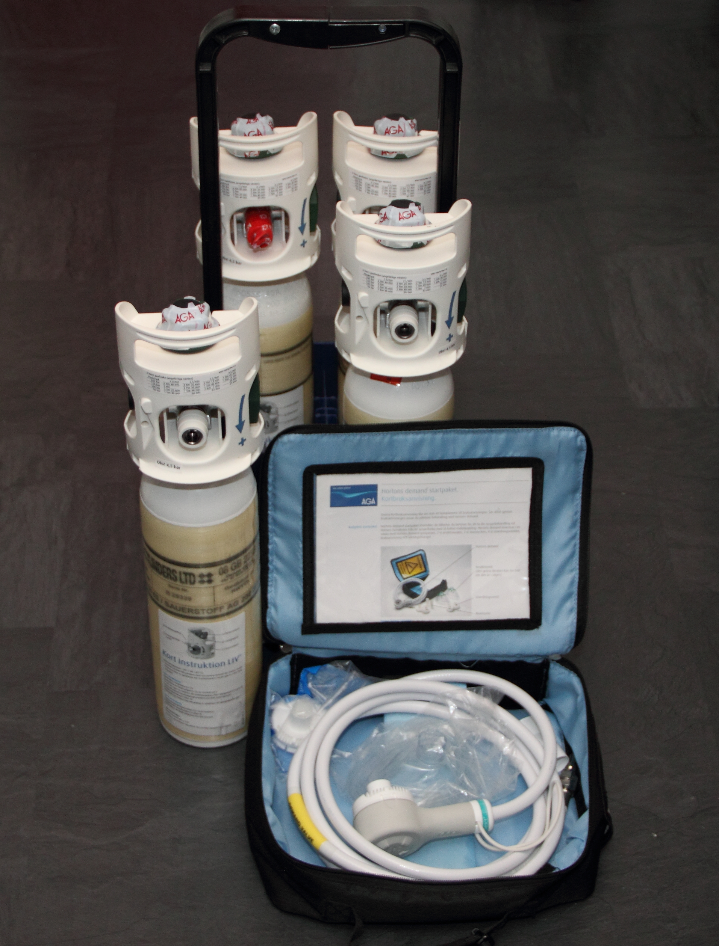 A cluster headache oxygen package with breathing mask and 4 oxygen tanks from AGA/Linde GroupNorsk bokmål: Et klasehodepinesett fra AGA/Linde Group med demand-ventil, maske og fire oksygentanker med innebygd regulator